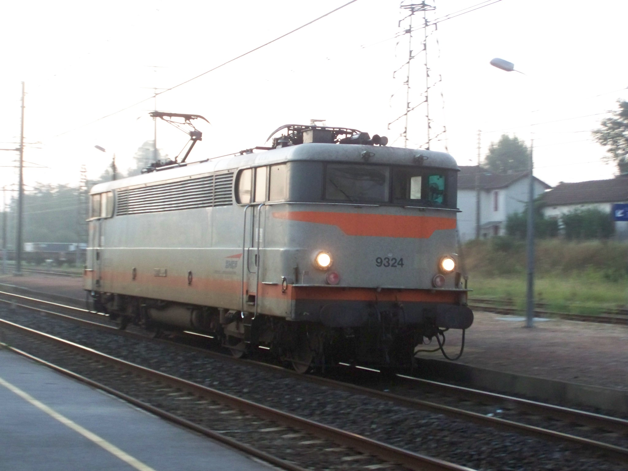 Passage of a class BB 9300 of the SNCF railways at Saint-Vincent de Tyrosse station in the south-west of France.